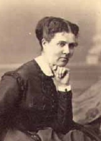 Mrs. Schuyler Colfax, three-quarter length portrait, seated, facing right, left hand under chin